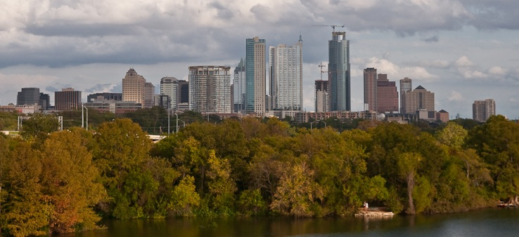 Downtown Austin from across Town Lake.